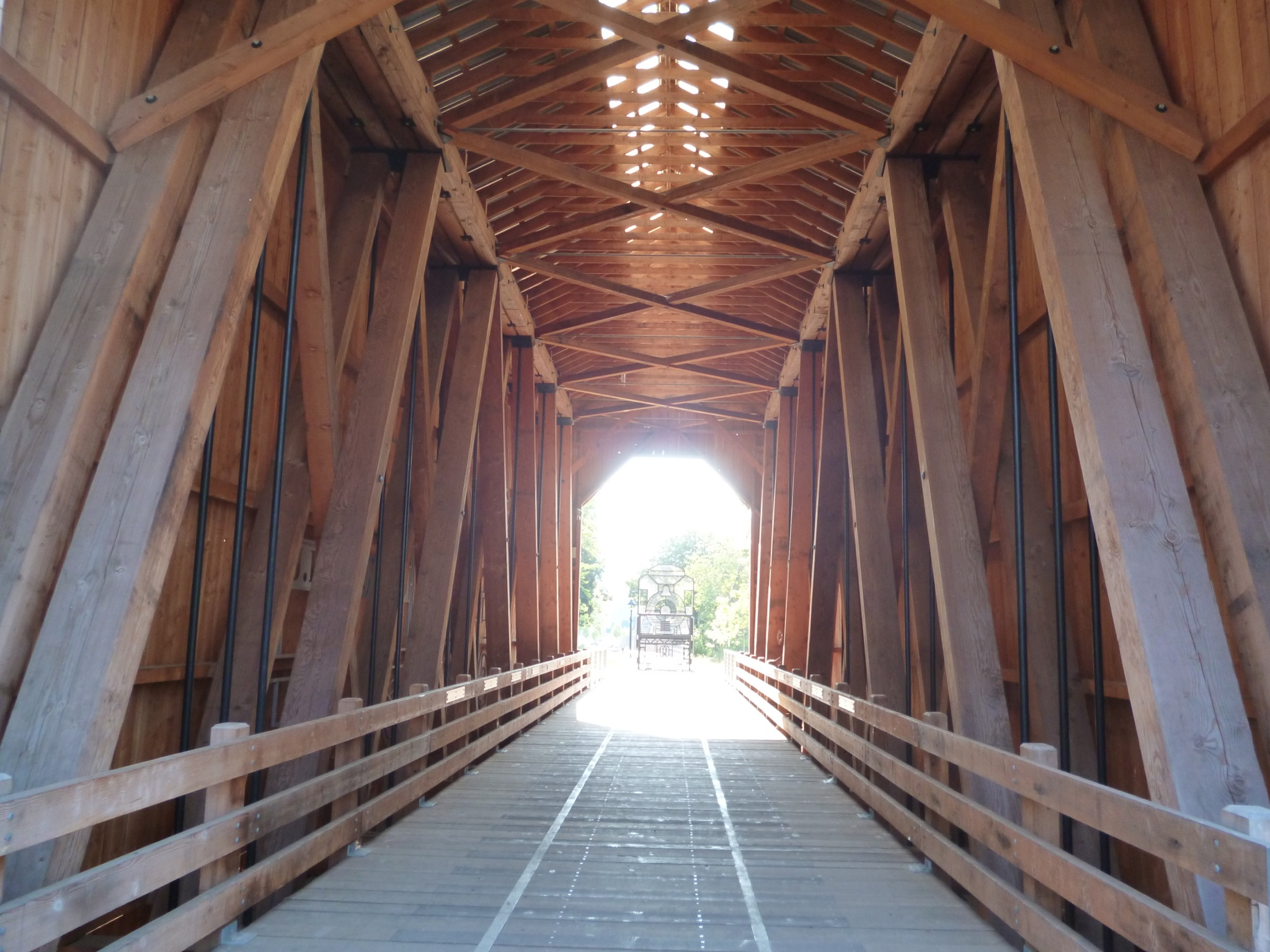 This is the inside of the restored Chambers Covered Bridge in Cottage Grove, Oregon.